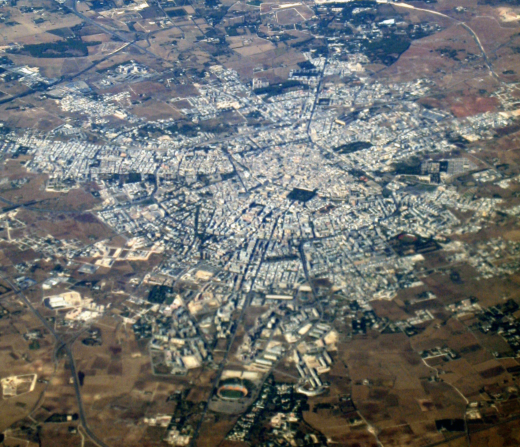 The Italian city of Lecce from the air. Taken on 07-Aug-2005 by Joolz.